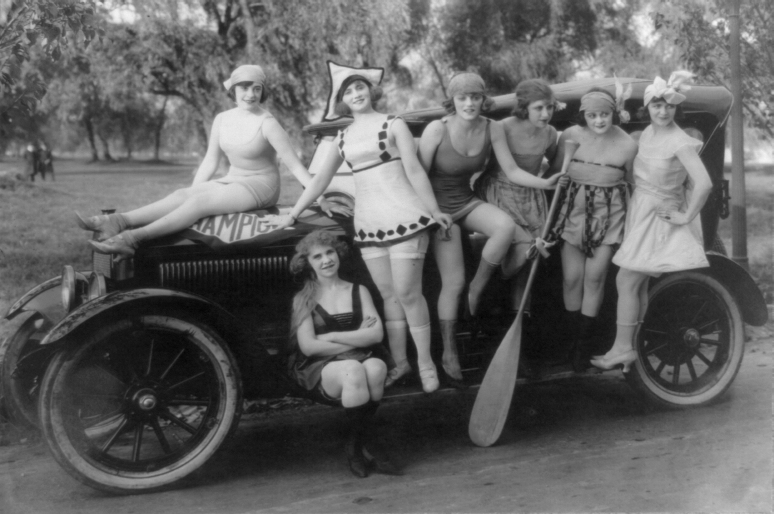 Mack Sennett's bathing beauties posed on automobile, Washington, D.C., area